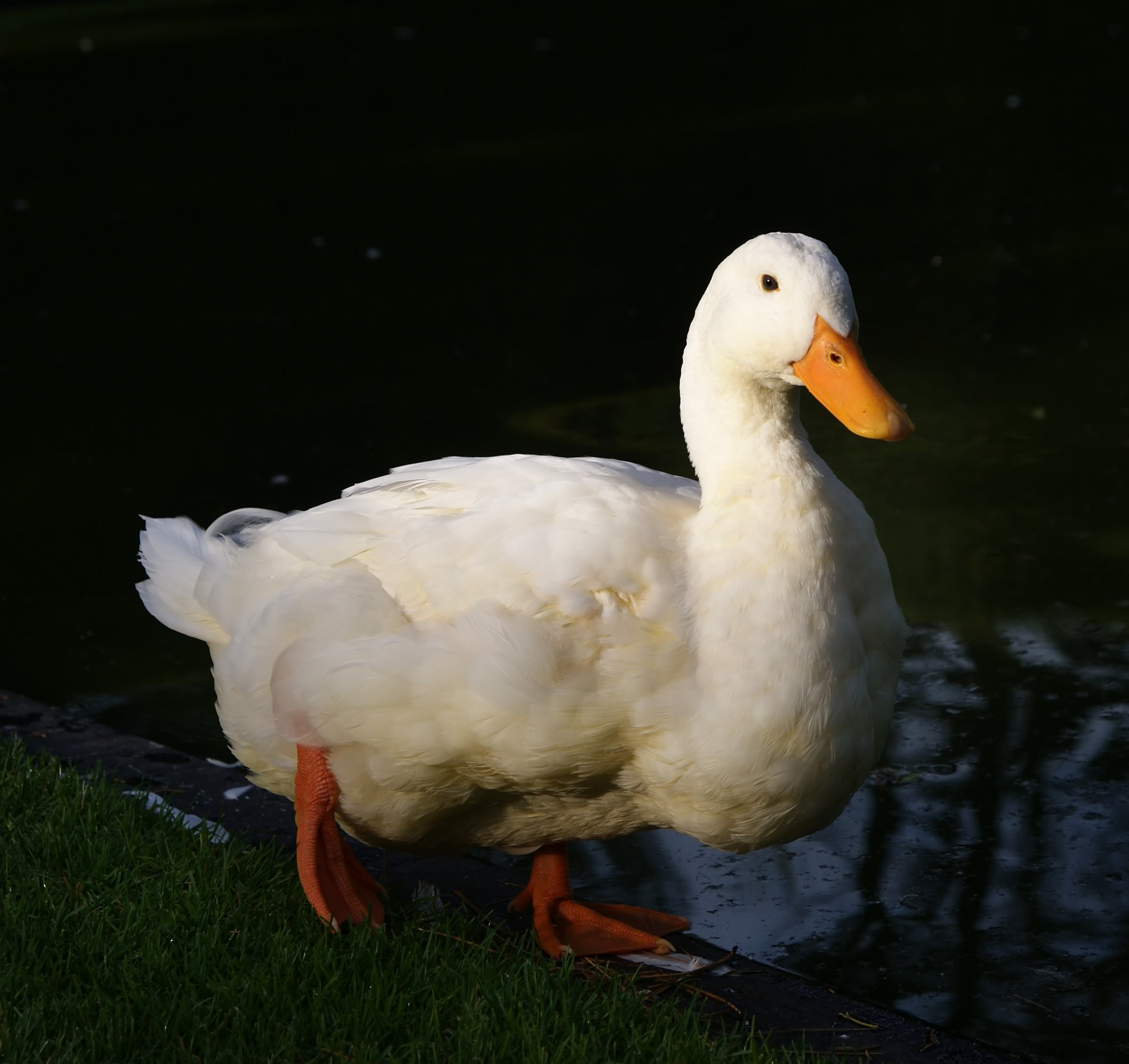 Aylesbury Duck.